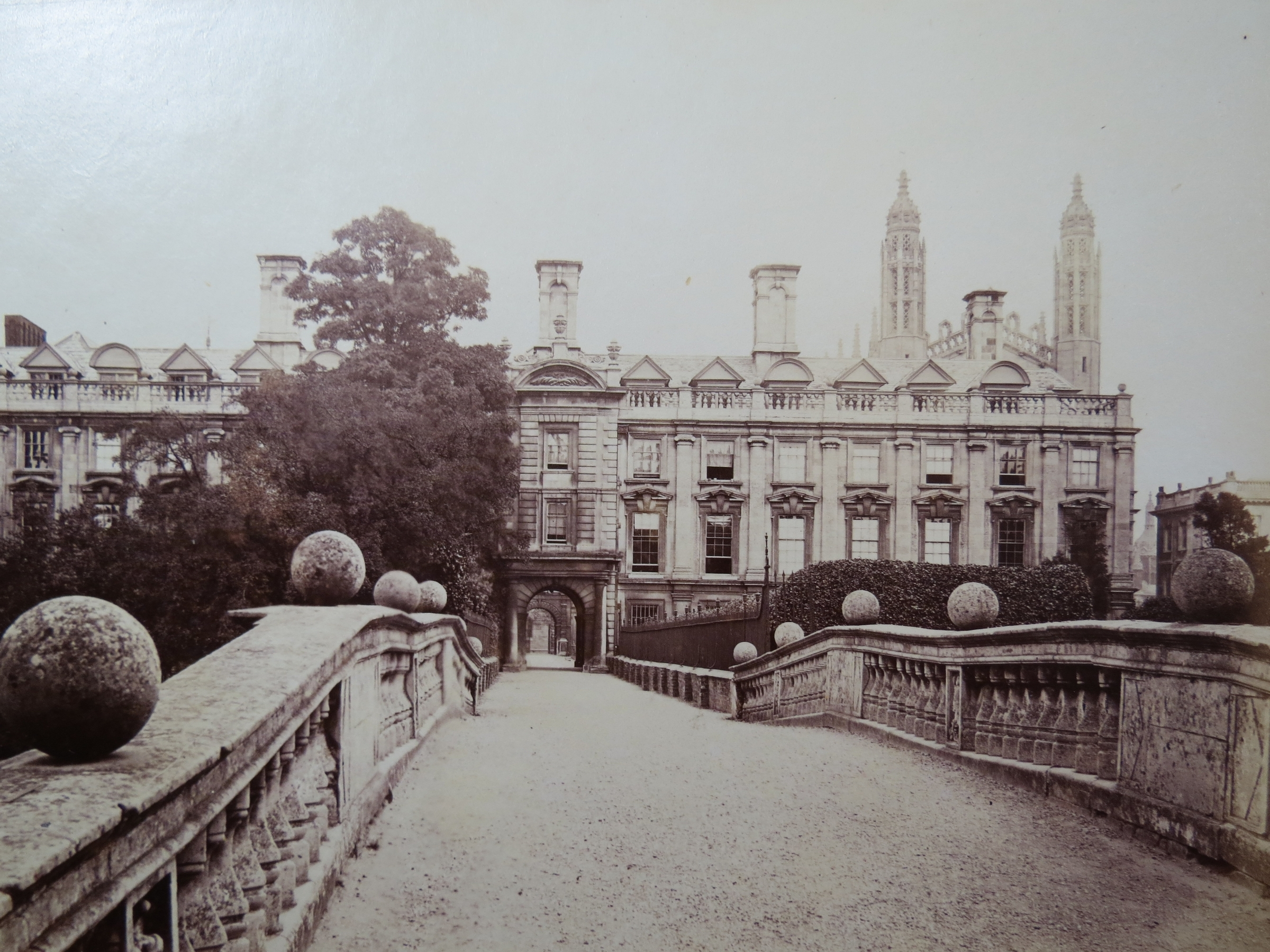 Clare College, Cambridge University. Image taken from original albumen print from a bound album of 58 Cambridge University photographs. Original 19th century album in the possession of Kimberly Blaker, New Boston Fine and Rare Books.